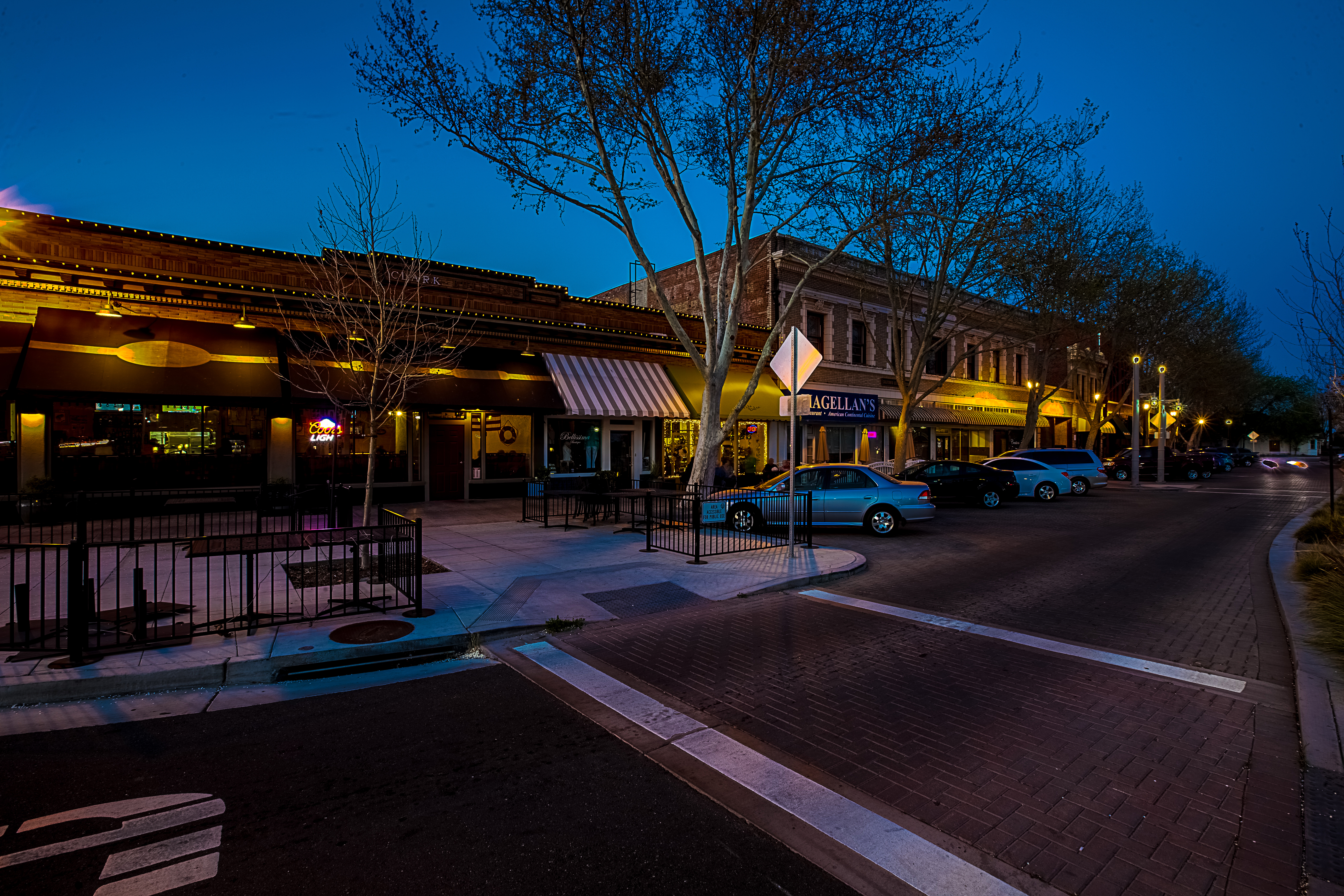 Downtown Tracy